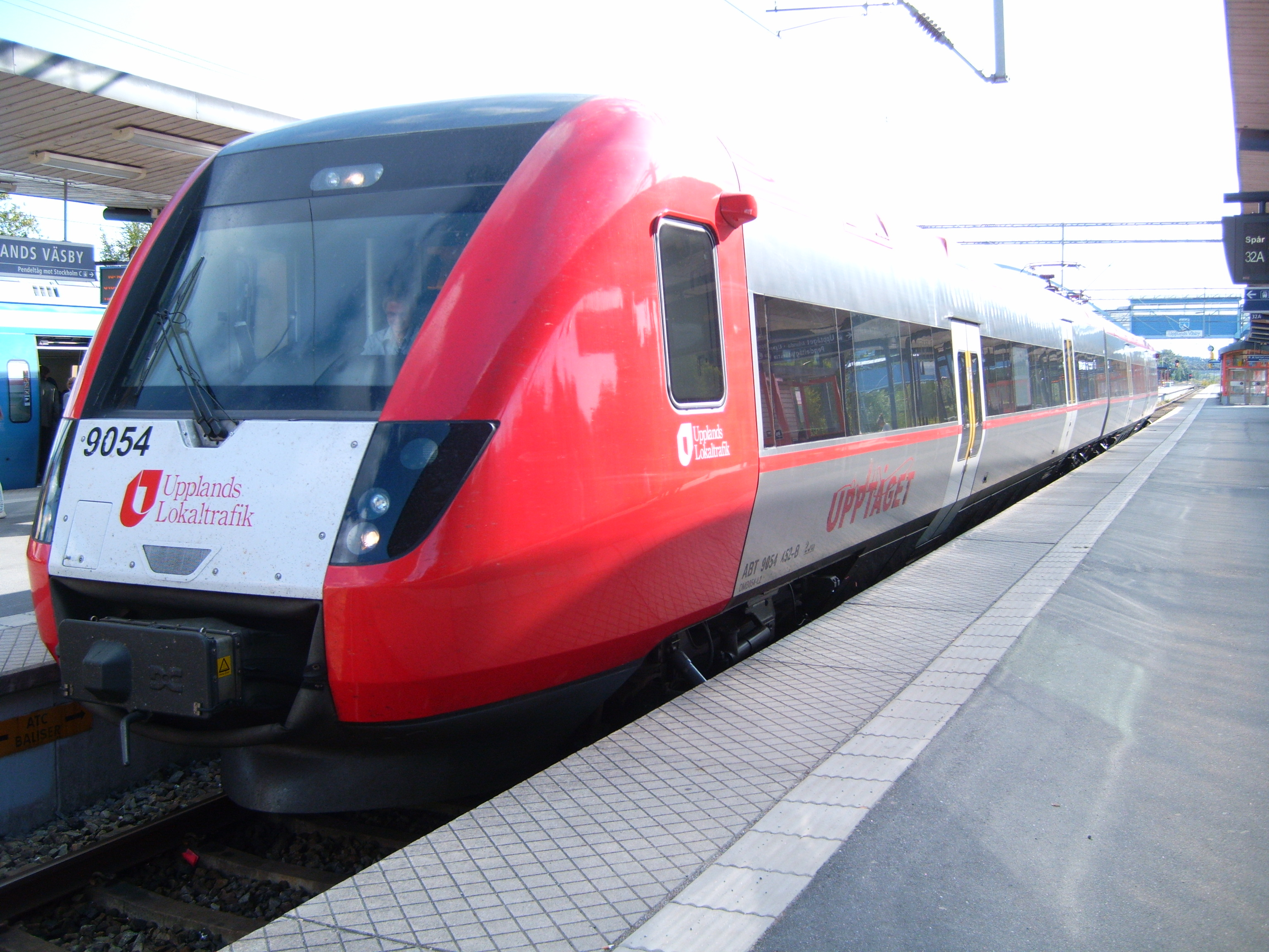 A terminating Upptåget local train in Upplands Väsby, suburban Stockholm. Upptåget is the suburban rail network of Uppsala, which extends into the Stockholm metropolitan area.